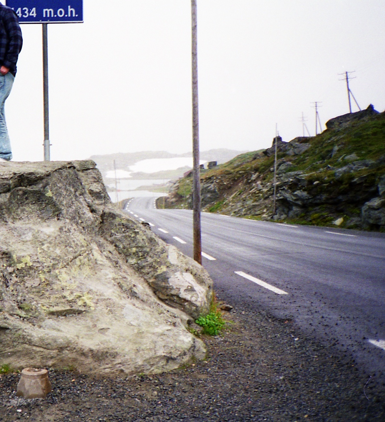 Road 55 at Fantesteinen. The highest national road in Norway, at 1434 m above sea